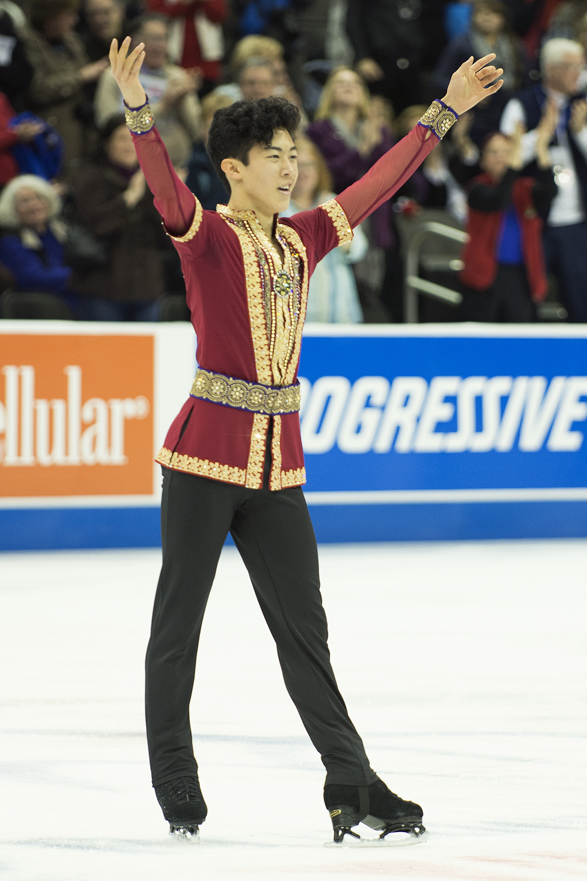 Nathan Chen at 2017 US Nationals